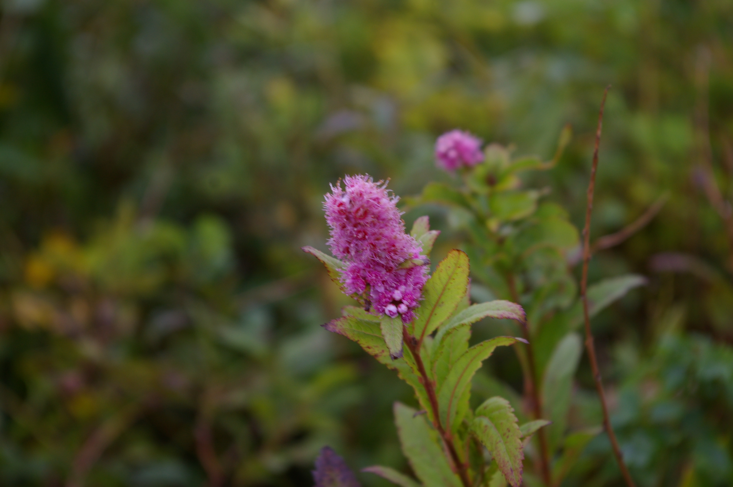 Spiraea salicifolia var. salicifolia in Kiritappu Wetland, Hamanaka, Hokkaido